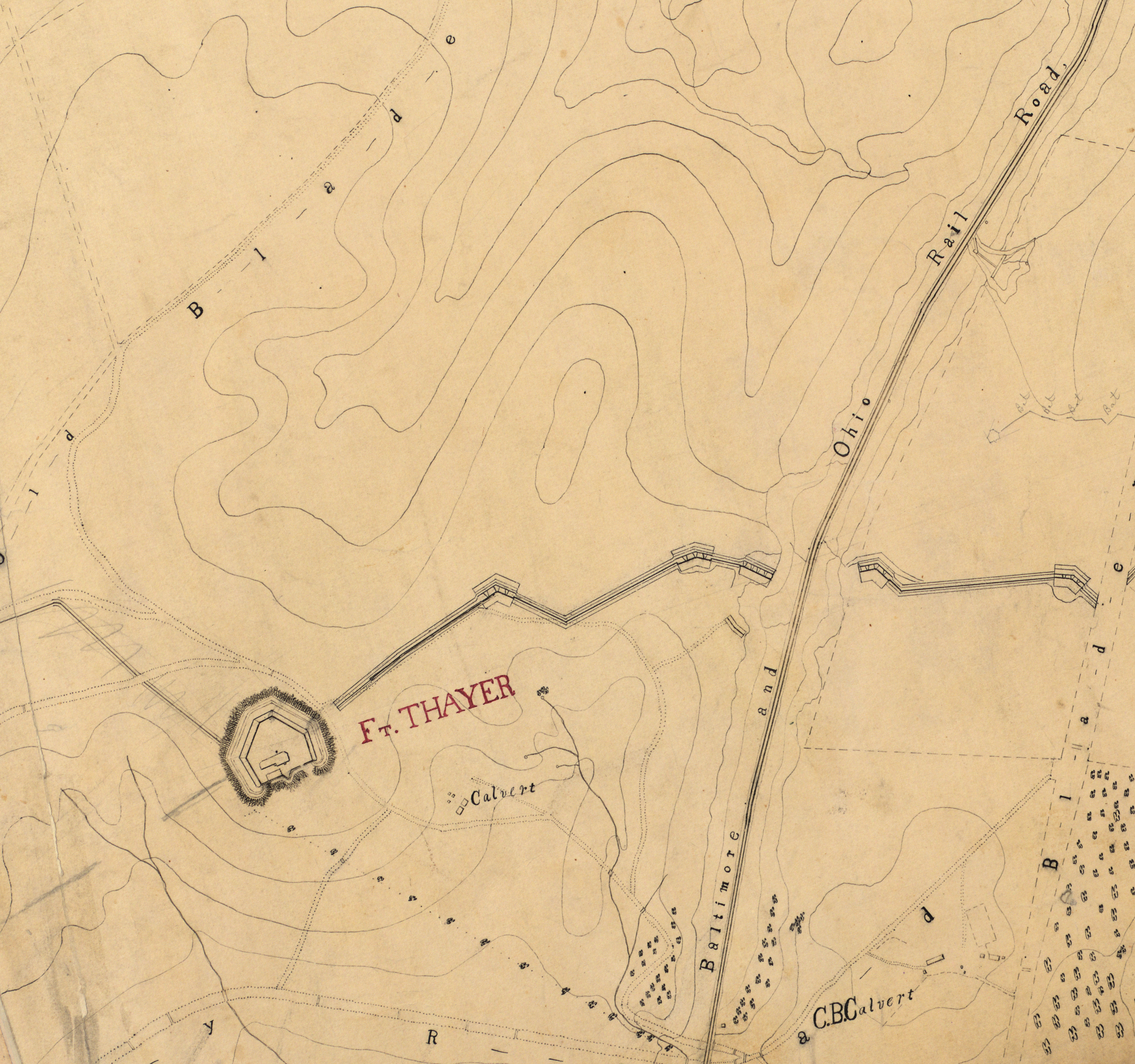 Detail from Topographical map, 1st Brigade, defenses north of Potomac, Washington, D.C. (East)